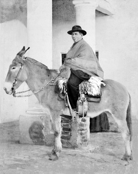 Argentine priest José Gabriel Brochero riding his mule, with which he traveled the parish of St. Albert, now known as the Valley of Traslasierra, covering 4,336 square kilometers of valleys and mountains.